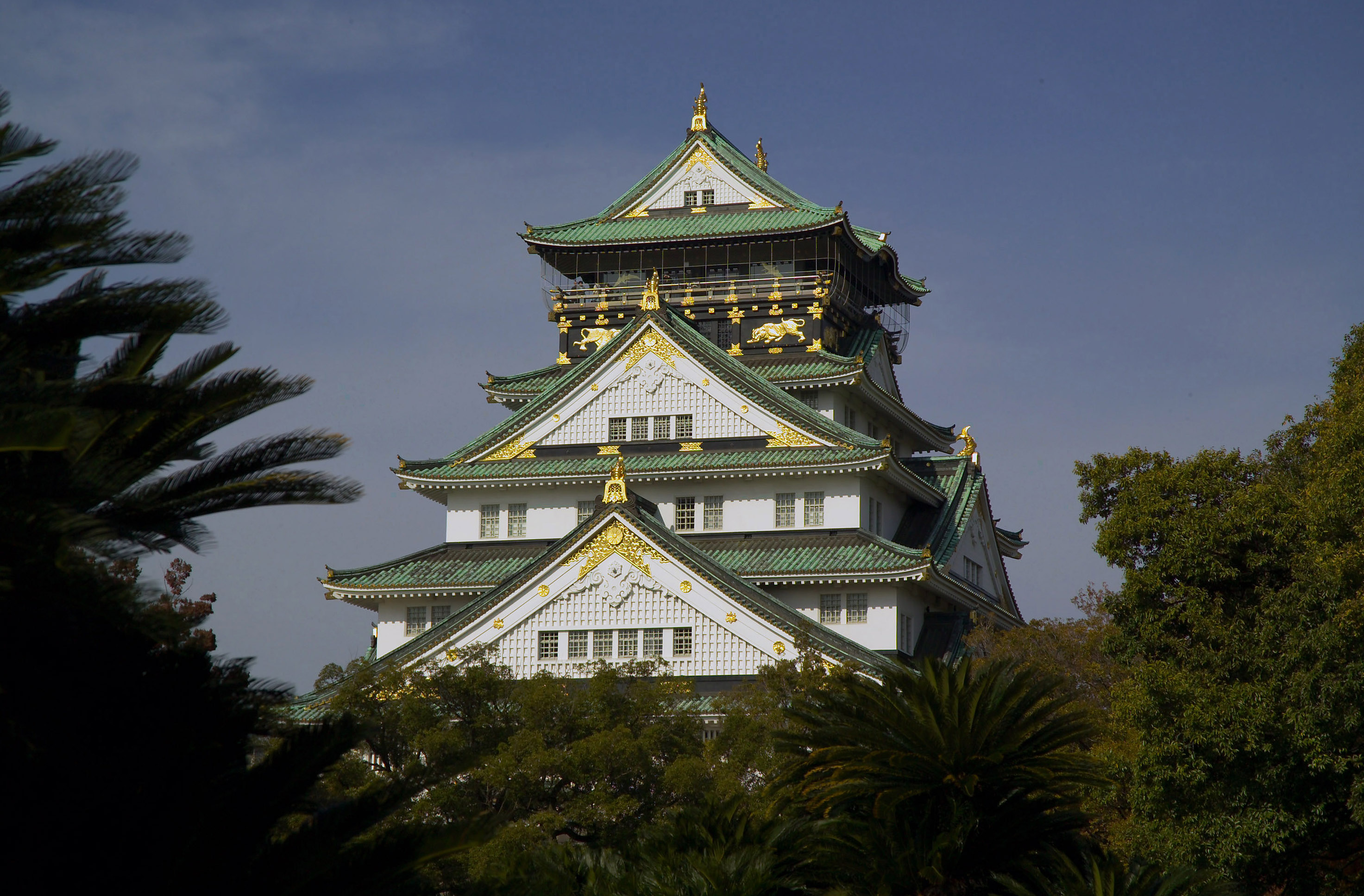 This photo shows Osaka Castle in the city of Osaka, Osaka Prefecture, Japan. I took the photo and contribute my rights in the file to the public domain; individuals and organizations retain rights to images in it.